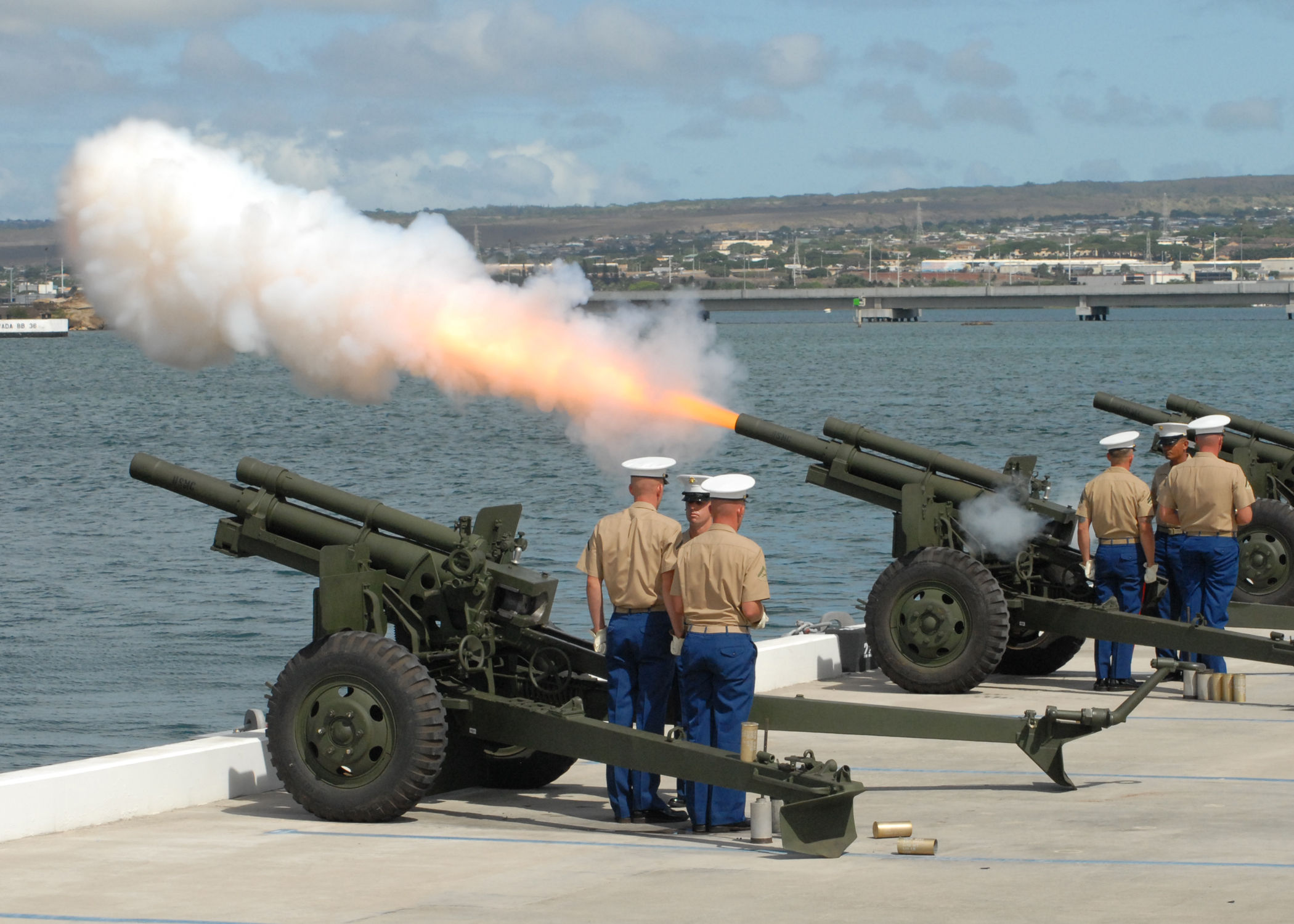 PEARL HARBOR (Sept. 25, 2009) A U.S. Marine Corps saluting battery detail fires a 17-gun salute during the arrival of Adm. Timothy J. Keating, commander of U.S. Pacific Command, during the U.S. Pacific Fleet Change of Command Ceremony at Naval Station Pearl Harbor. (U.S. Navy photo by Mass Communication Specialist Patrick Murray/Released)